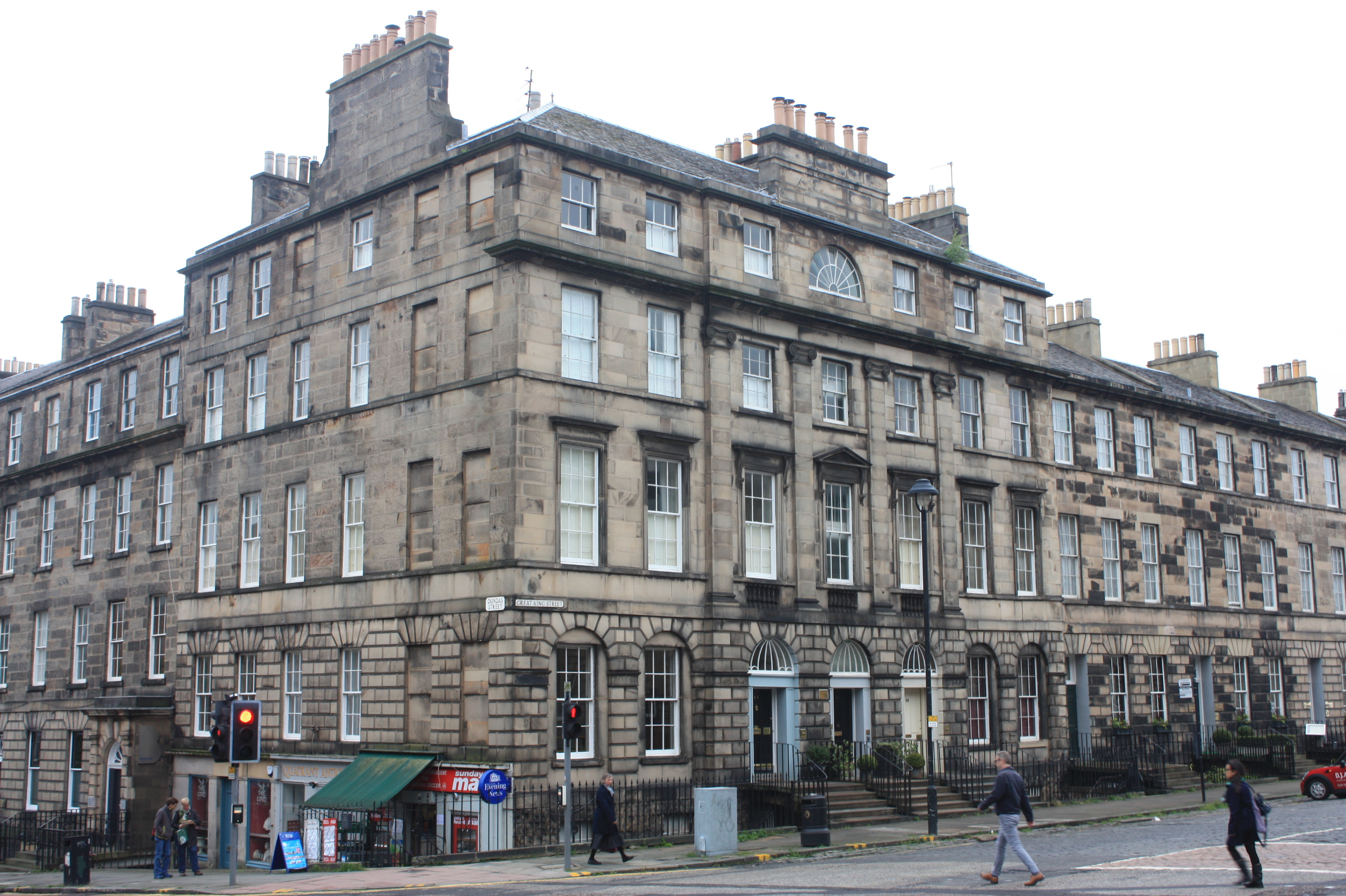 38-42 Great King Street, Edinburgh